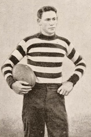 Photograph of Bert Whittington from the 1910 Weekly Times Victorian Footballer Postcard Series